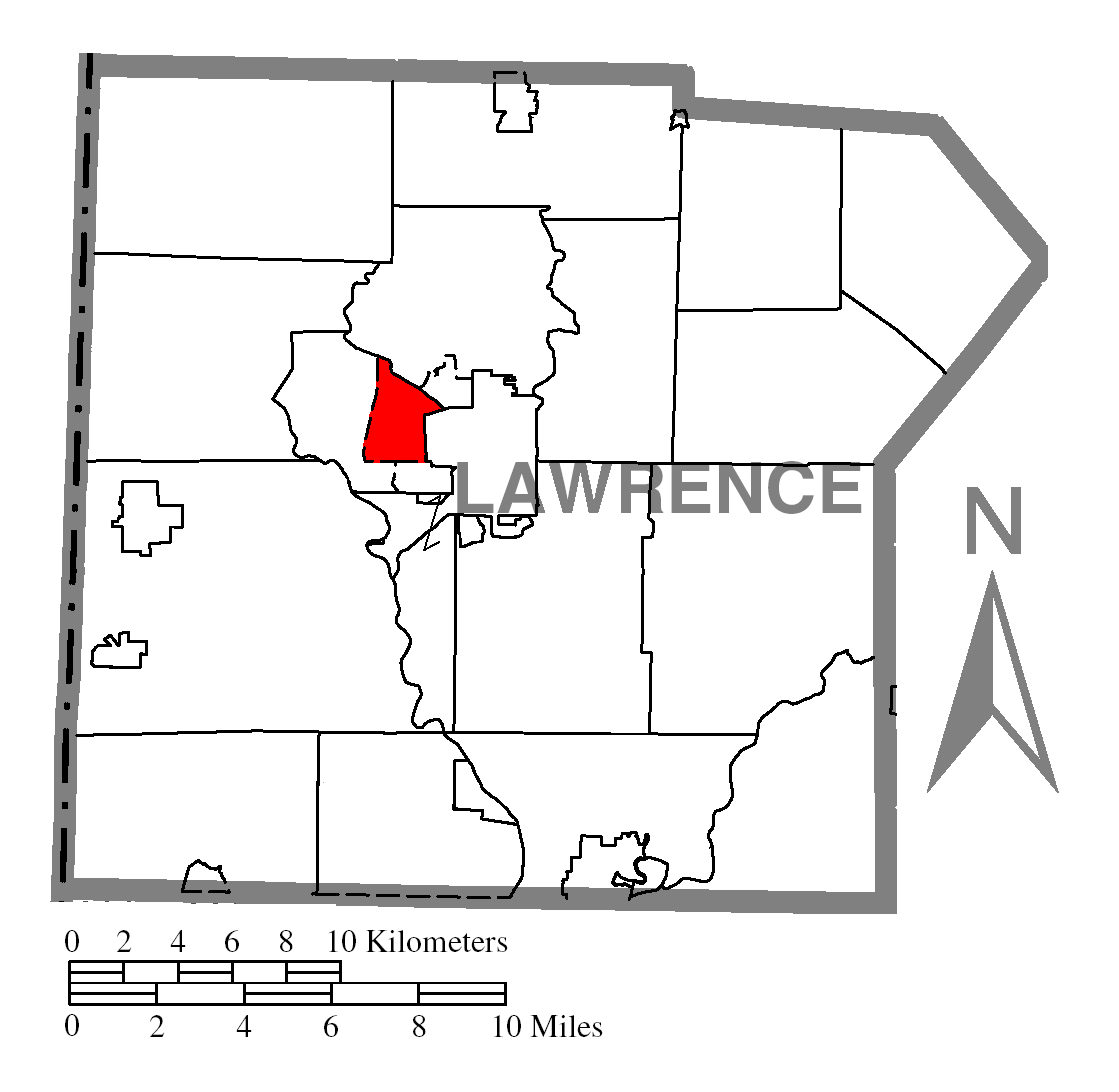 Map of Lawrence County higlighting Oakwood.